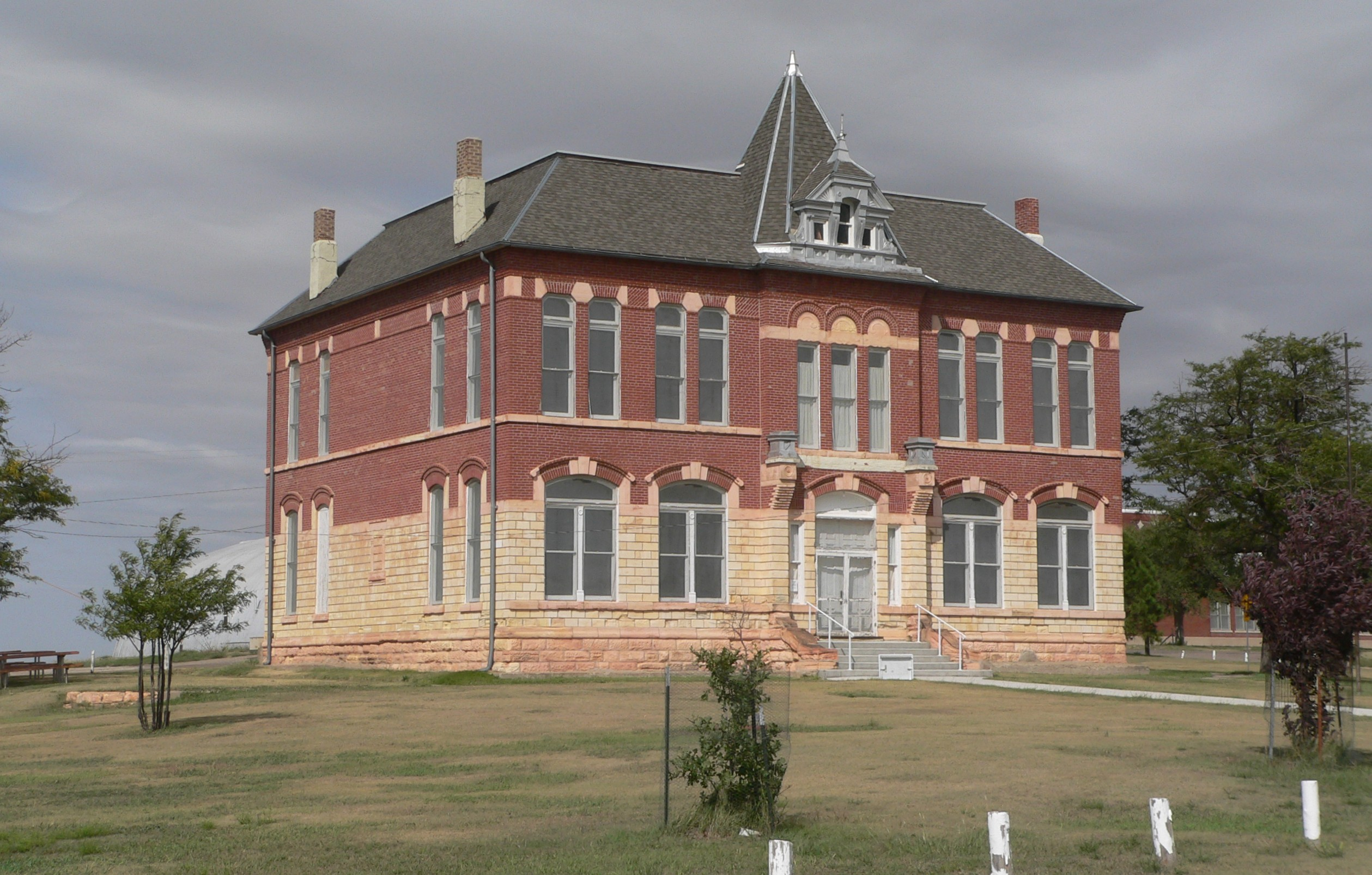 Butterfield Trail Museum, formerly the Logan County courthouse, in Russell Springs, Kansas; seen from the southeast.